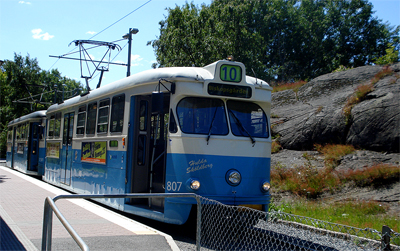 Tram nr 807 at station Dr Sydows gata.